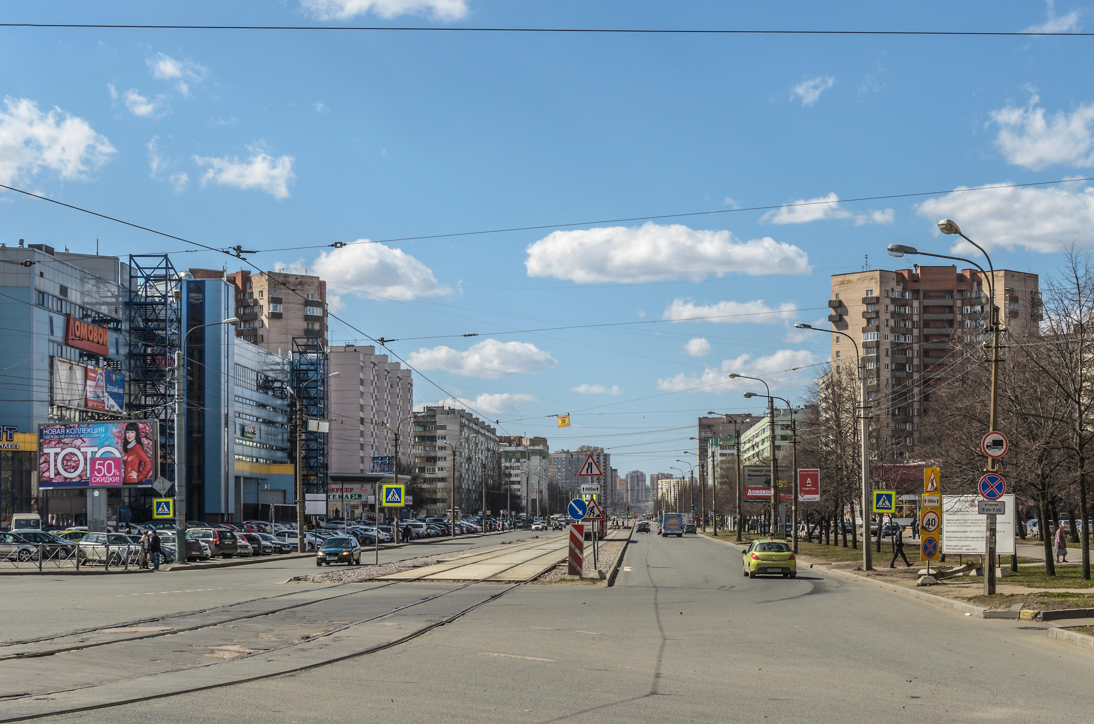 Marshala Kazakova street in Saint Petersburg